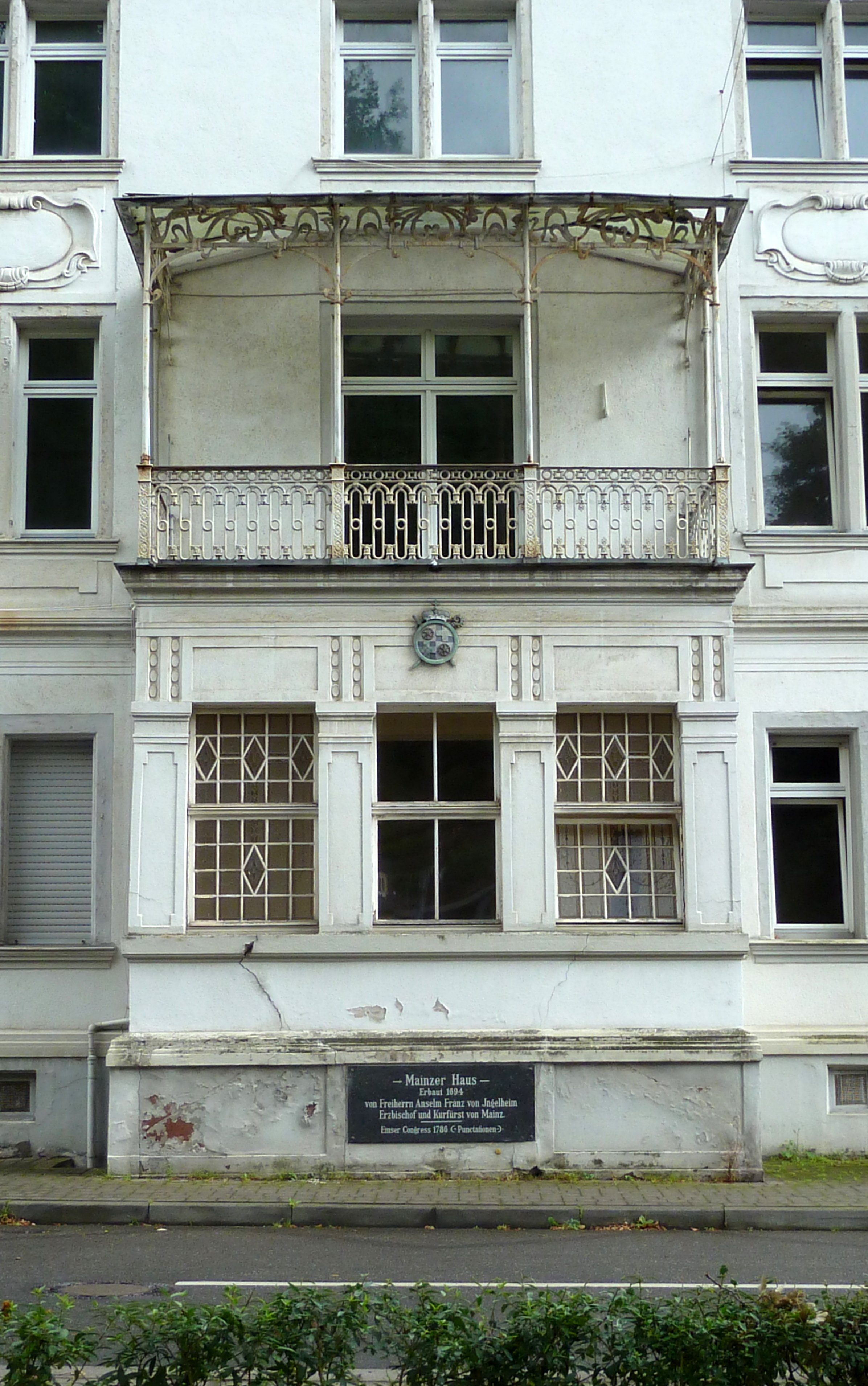 Mainzer Haus in Bad Ems, Mainzer Straße